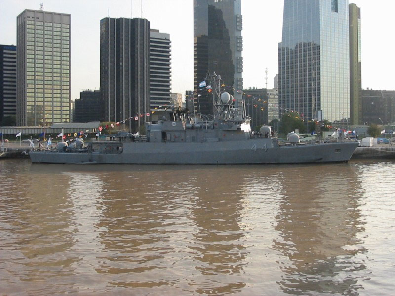 Misilistic Corbete Meko 140 A16 ARA Parker (P-44) Martín Otero Apostadero Naval Buenos Aires (ADBA) May 2004